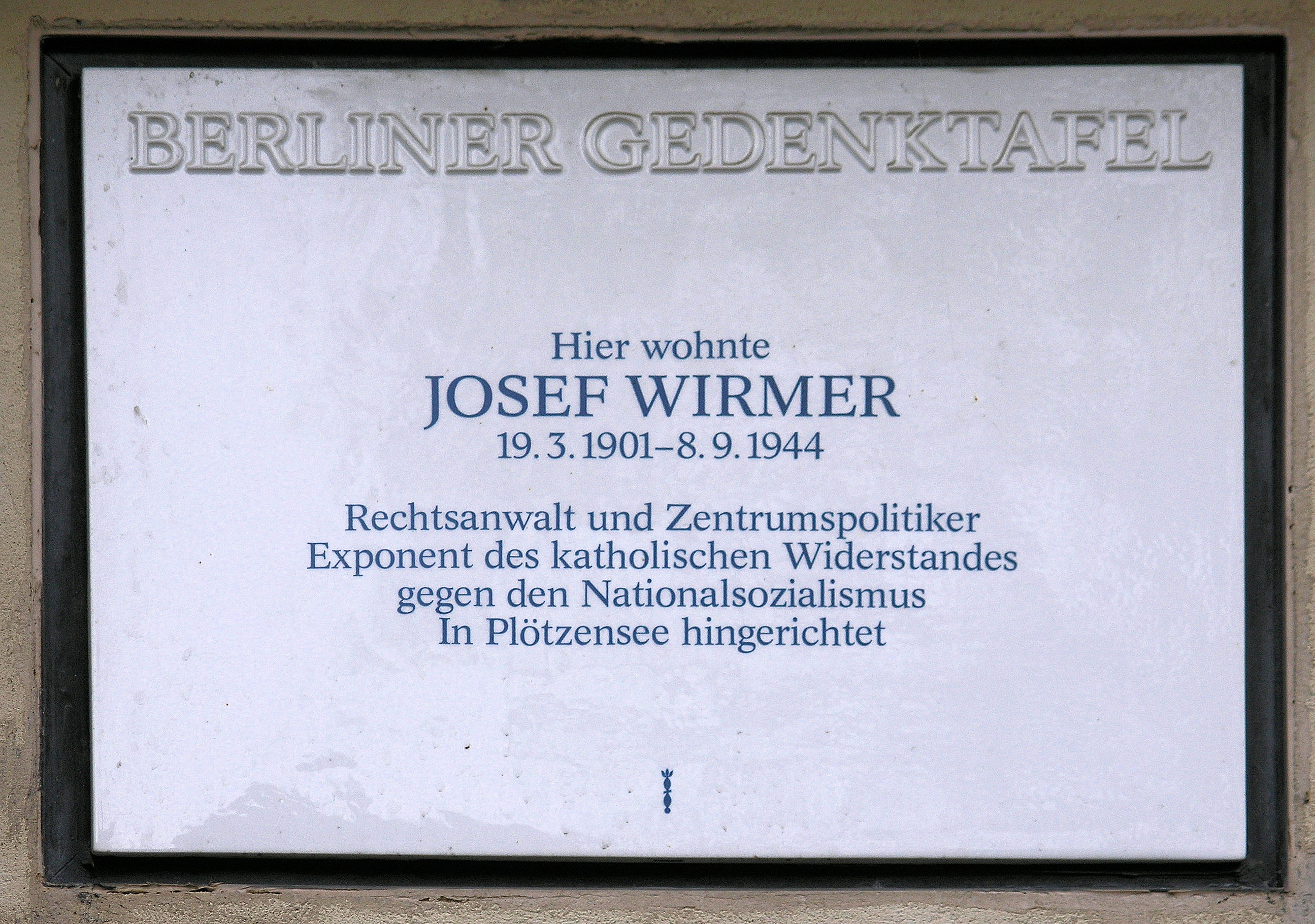 Memorial plaque, Josef Wirmer, Holbeinstraße 56, Berlin-Lichterfelde, Germany Koordinate:52°26′22″N 13°18′18″E / 52.43944°N 13.305°E